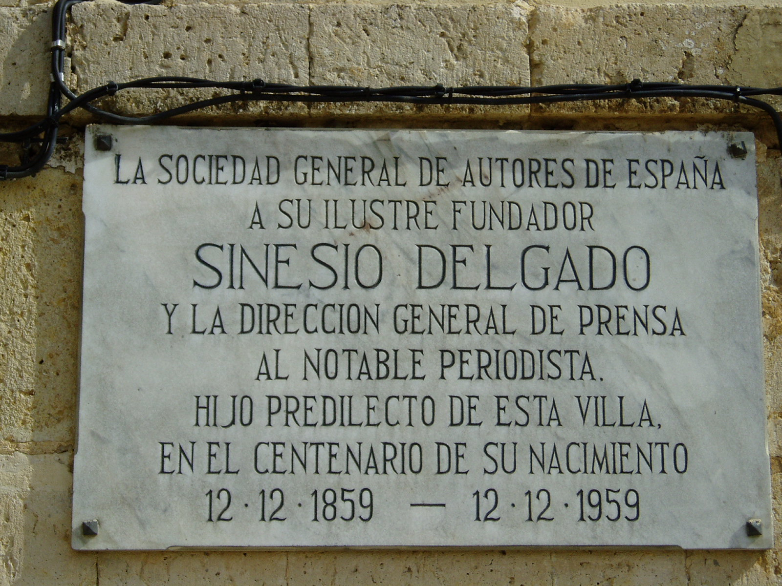 Plate in the house of Sinesio Delgado, in Támara de Campos, Palencia.